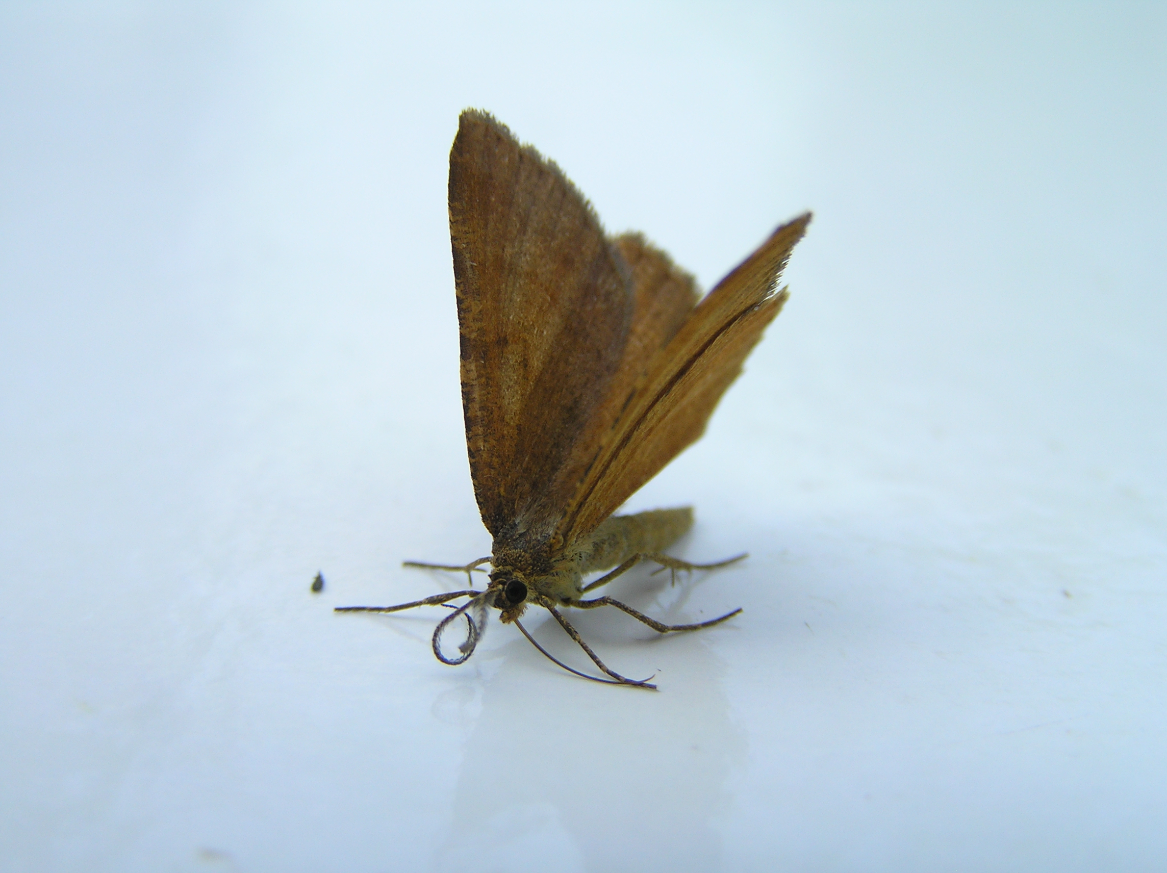 Macaria brunneata (Goes, the Netherlands)